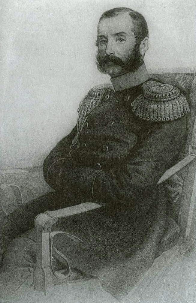 Baranov, Graf Pavel Trofimovich (1814—1864), major general.